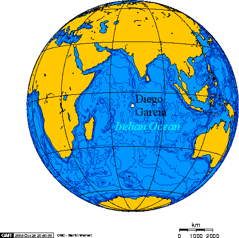 Orthographic projection centred over Diego Garcia. 72.4111 E -7.3111 S